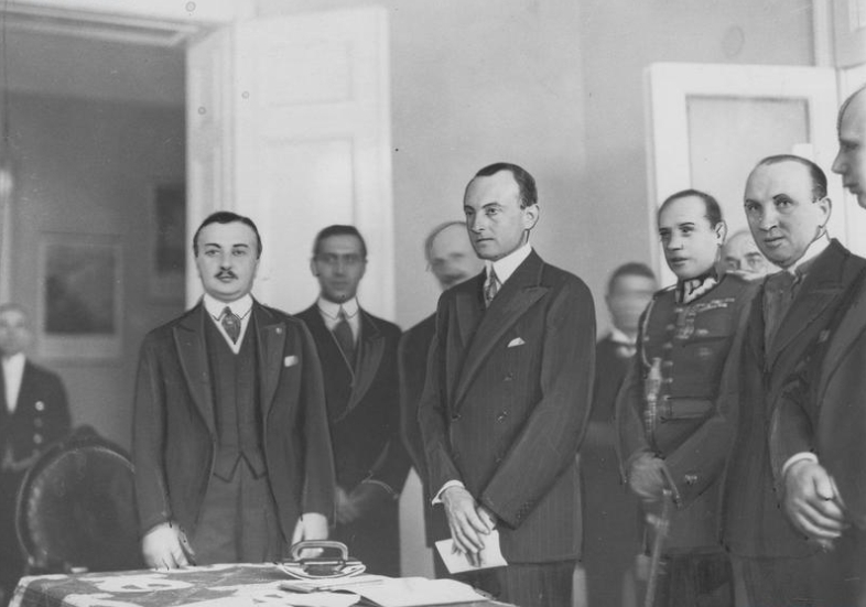 Opening of the exhibition of the painter Edward Okuni in Belgrade. Yugoslav prince Pavle Karađorđević in the center.